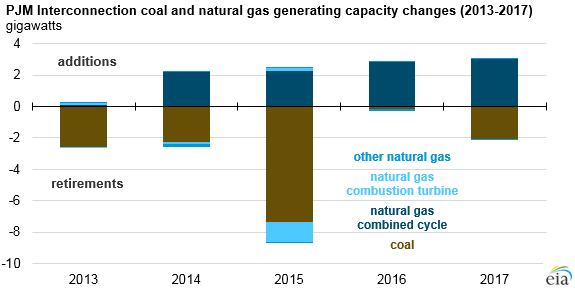 The addition of new natural gas-fired capacity and the retirement of older generating units, mostly coal, have affected PJM’s electricity generation mix. October 17, 2018